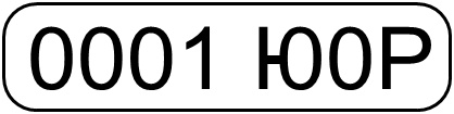 Old Republic of South Ossetia plate